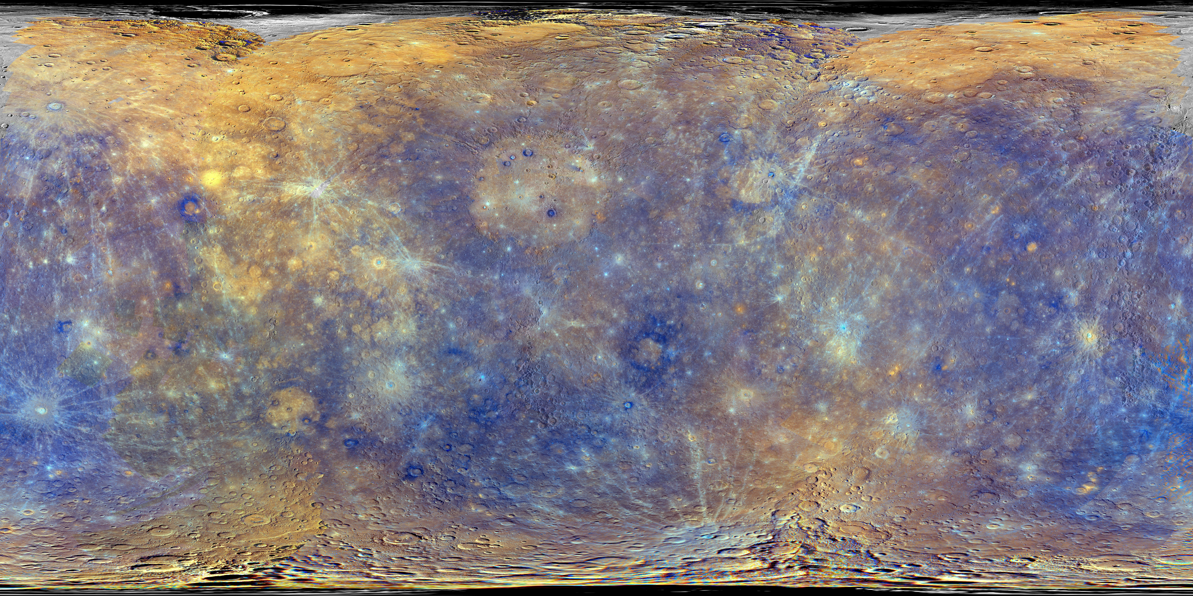 This colorful view of Mercury is similar to that used to generate this movie [23MB, 6.5MB] of Mercury as a spinning globe, and these two individual views (centered at 140°E and 320°E) of the innermost planet. The enhanced color view is overlaid on the global monochrome base map, which is available for download here. The enhanced color was produced by using images from the color base map imaging campaign during MESSENGER's primary mission. These colors are not what Mercury would look like to the human eye, but rather the colors enhance the chemical, mineralogical, and physical differences between the rocks that make up Mercury's surface. This specific color combination places the second principal component in the red channel, the first principal component in the green channel, and the ratio of the 430 nm/1000 nm filters in the blue channel. Instrument: Wide Angle Camera (WAC) of the Mercury Dual Imaging System (MDIS) Center Latitude: 0° Center Longitude: 180° E Map Projection: Simple cylindrical projection Resolution: 3.74 km/pixel Scale: Mercury's diameter is 4880 kilometers (3030 miles)